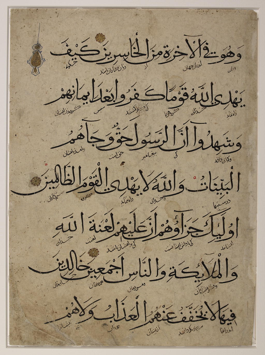 Verses 85-88 of the 3rd chapter of the Qur'an entitled Al 'Imran (The Family of 'Imran). The script used for the Arabic text is tawqi' while the Persian translations are written in a Persian naskh. Tawqi' is similar to thuluth but smaller and with systematic assimilations between letters ordinarily not joined. For example, line four (verse 90) includes the word al-dalun ("those who have gone astray") with the alif and lam (a and l) attached by a playful upturned loop.